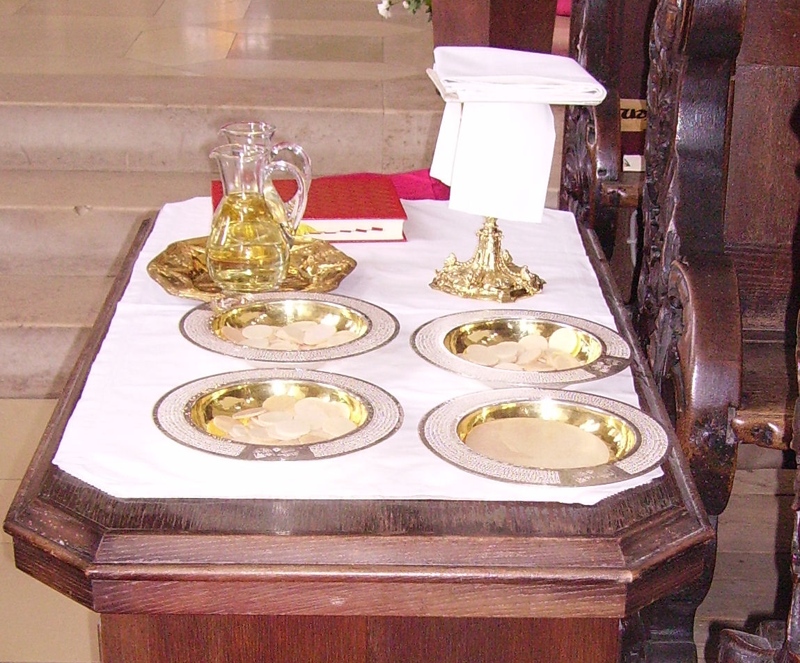 Liturgical credence table, St. Ulrich and St. Afra (Augsburg), Germany